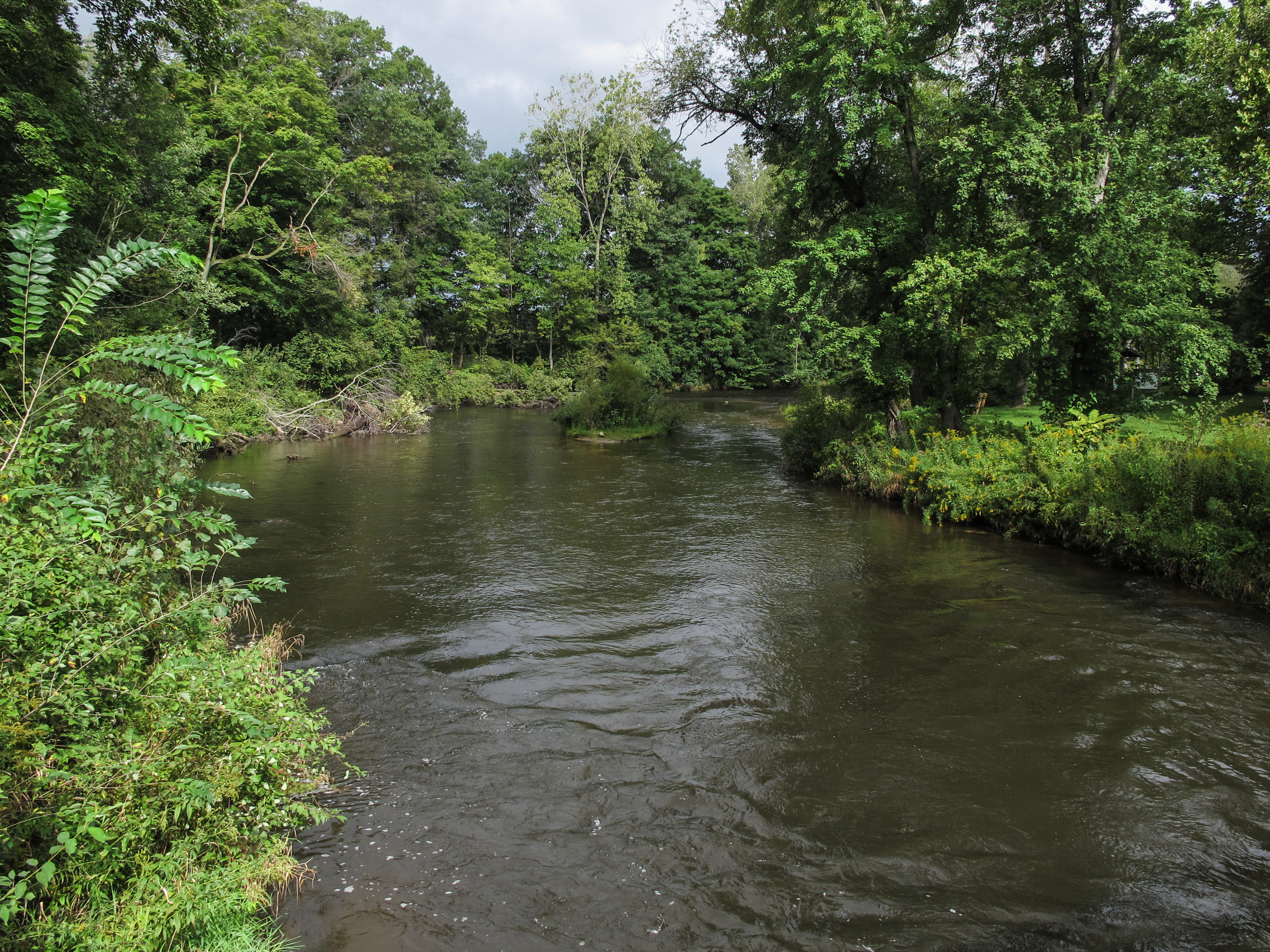 The Dowagiac River as viewed upstream from a pedestrian bridge in Arthur Dodd Memorial Park in Pokagon Township in Cass County, Michigan.